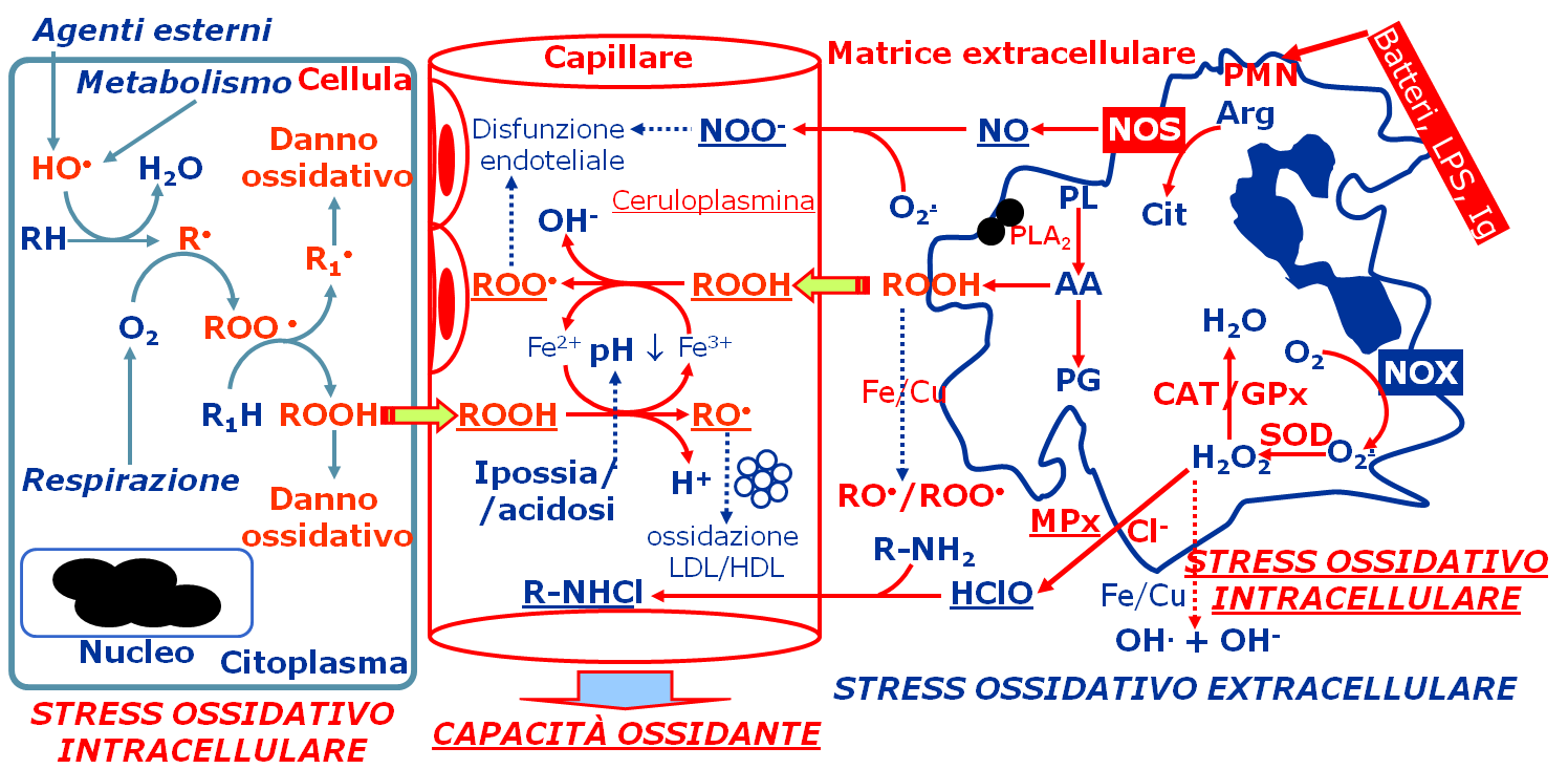 Oxidative stress